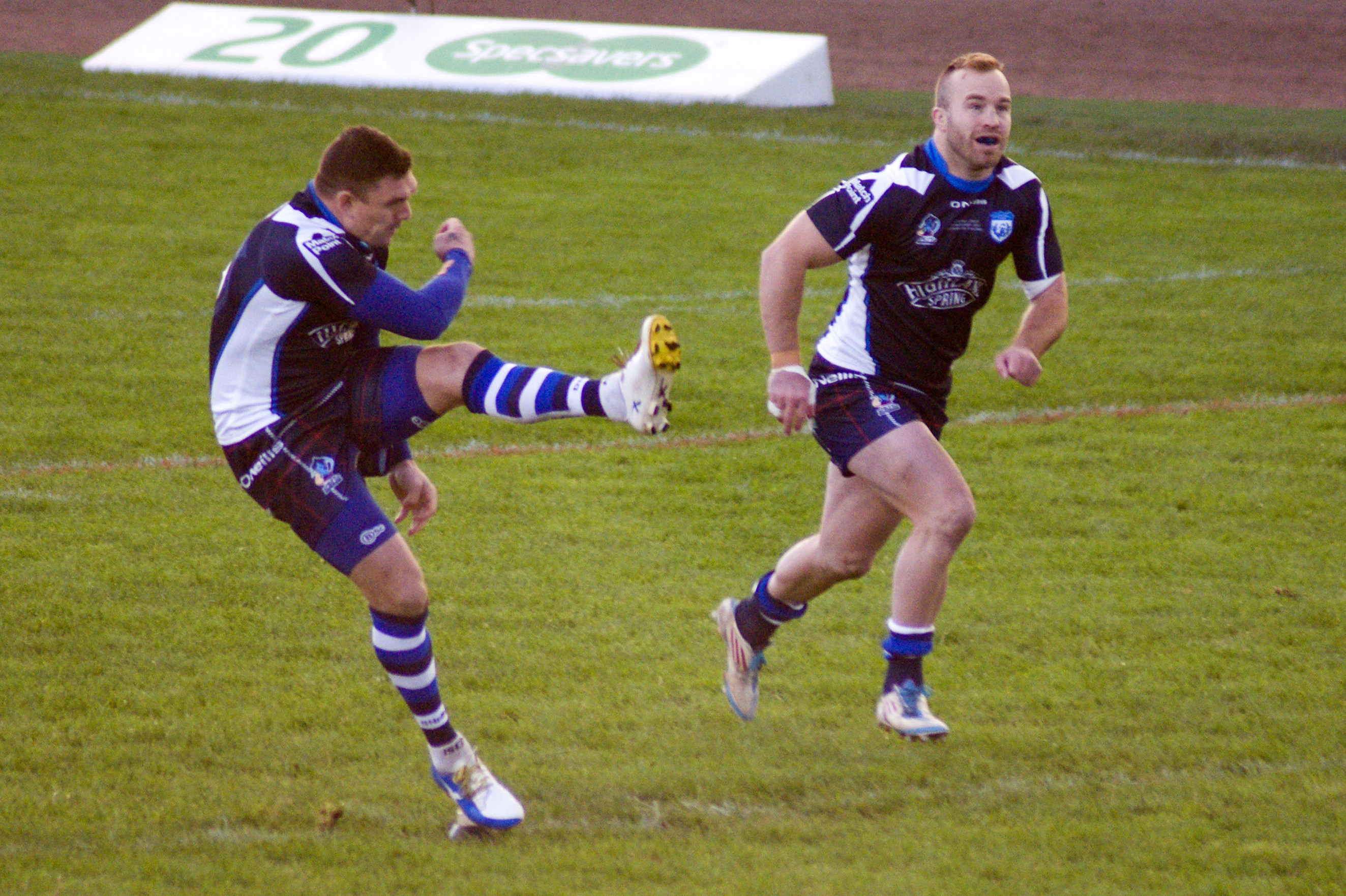 2013 Rugby League World Cup match between Scotland and Italy at Derwent Park in Workington.